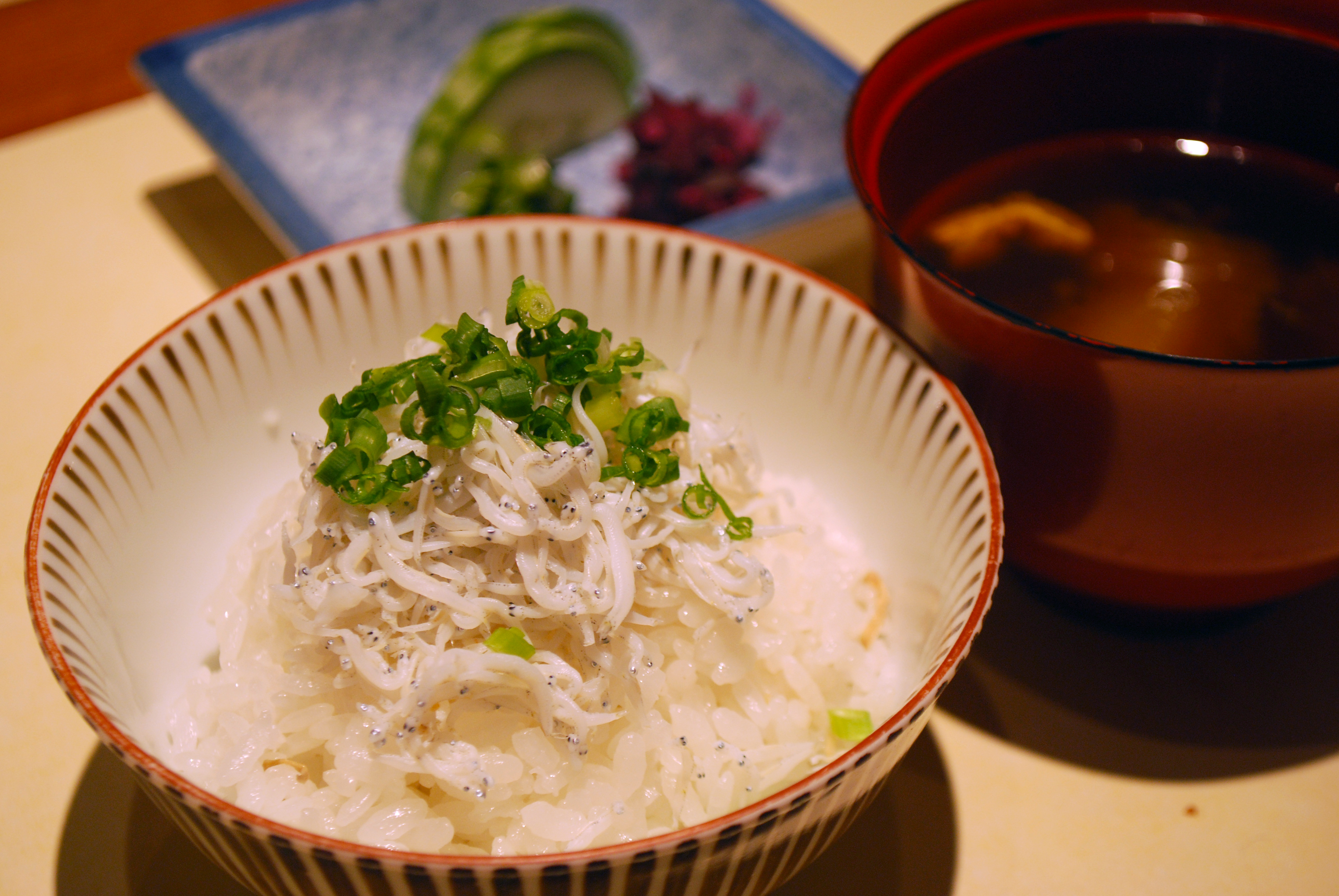 Young of sardines rice,Yaizu-city,Japan